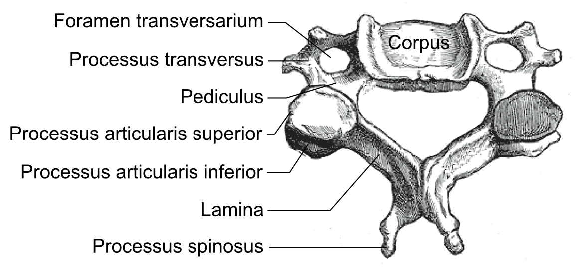 Cervical vertebra, Latin terms